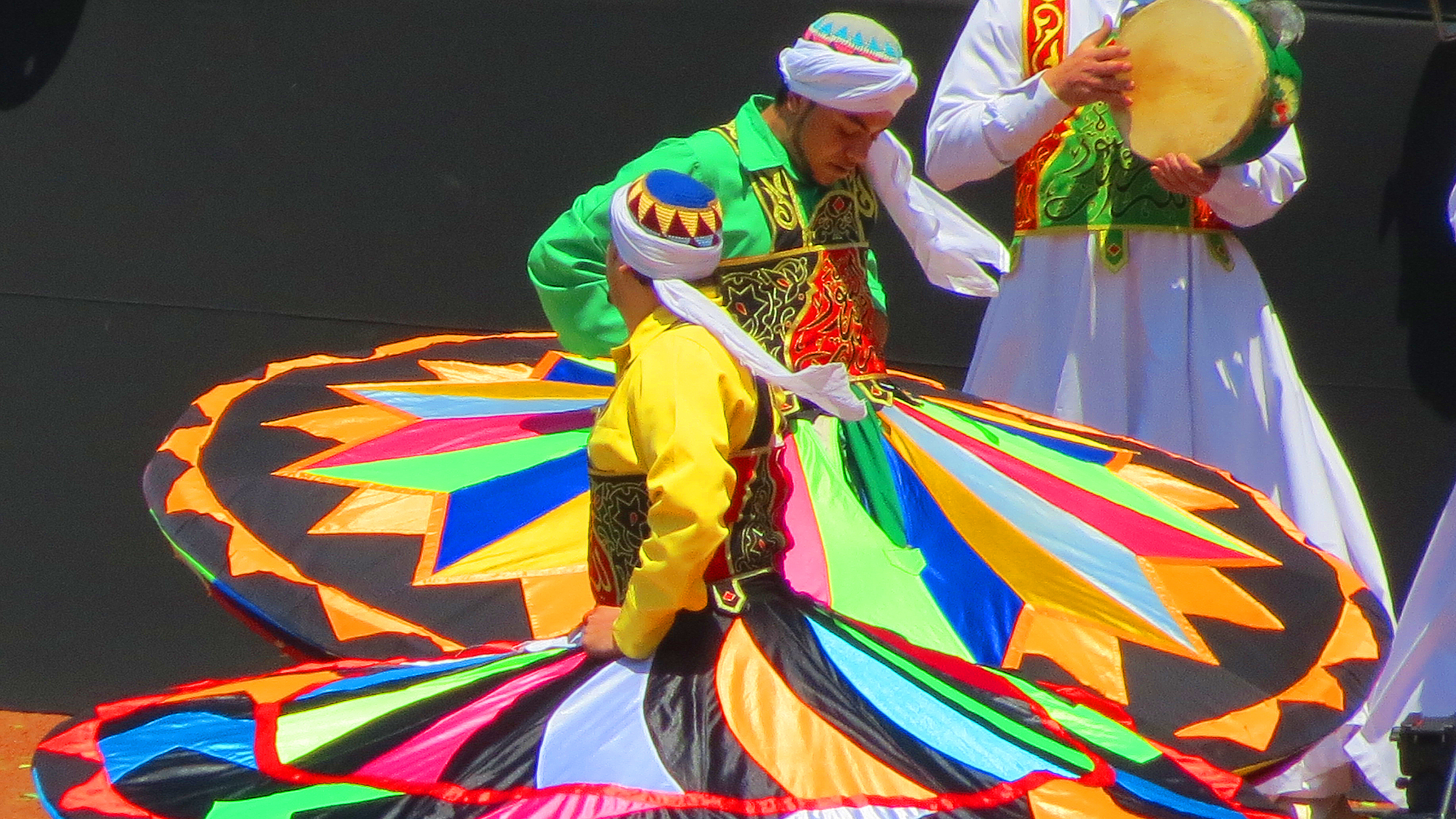 Tanoura dance is performed by Sufi men in Egypt. This is an image of Cultural Fashion or Adornment from Egypt